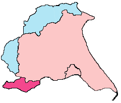 The old and revised boundaries of the East Riding of Yorkshire, England